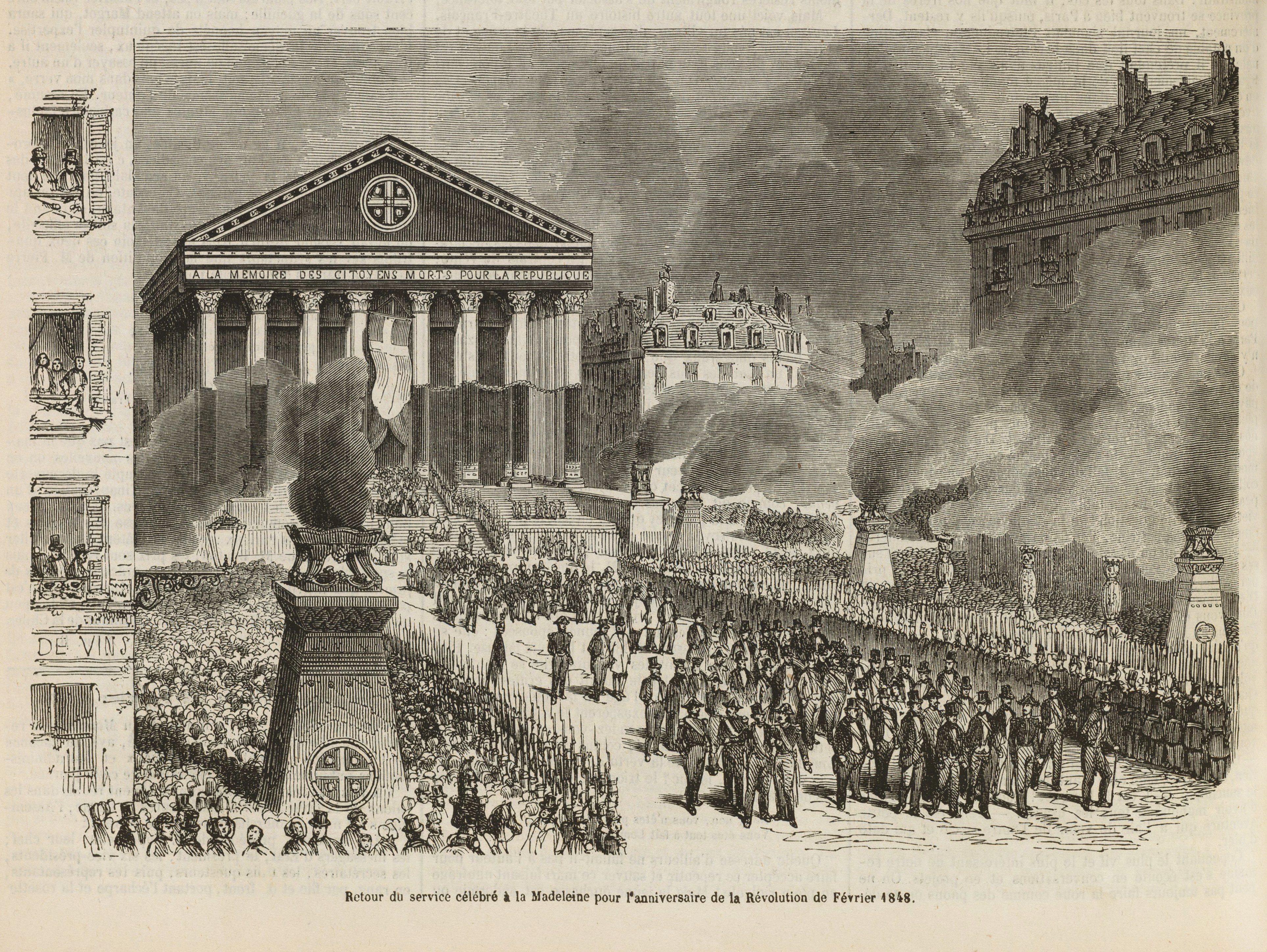 The 1848 Revolution put an end to the reign of Louis-Philippe. It was associated with the 1789 Revolution, because it triggered the collapse of the monarchy the emergence of a Republic. This print shows celebrations of the first anniversary of the 1848 Revolution. These took place in the church of La Madeleine, where a mass was celebrated in honour of the event. The characters in the main alley are members of the new government and of the National Guard.